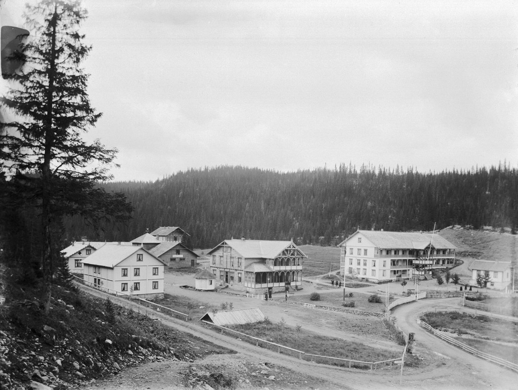 Tonsaasen Sanatorium in Valdres area in Norway